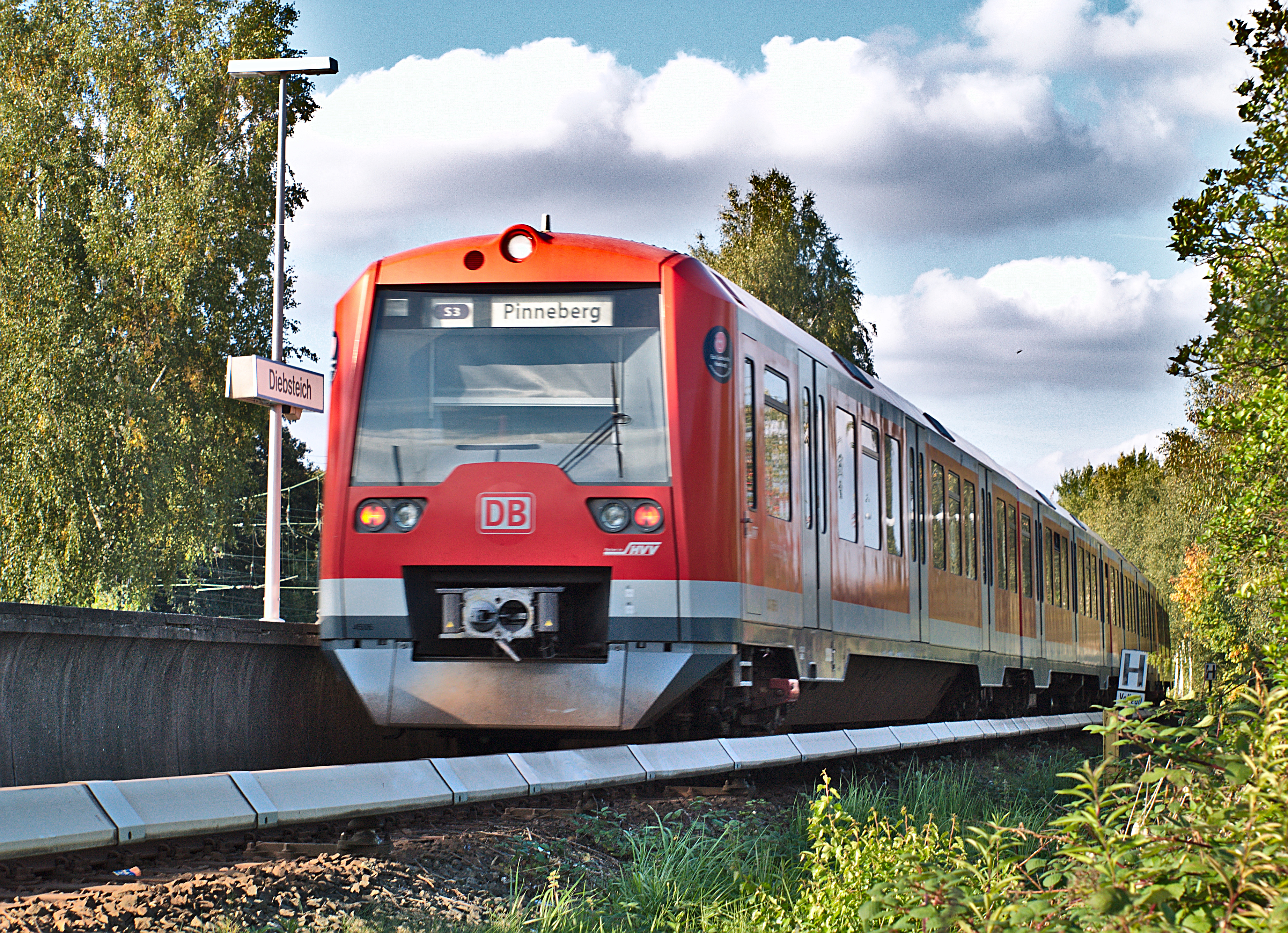 A Hamburg S-Bahn train comprised of two class 474/874 units with 474 506-? as trailing car is leaving Diebsteich station on route S3 to Pinneberg station.